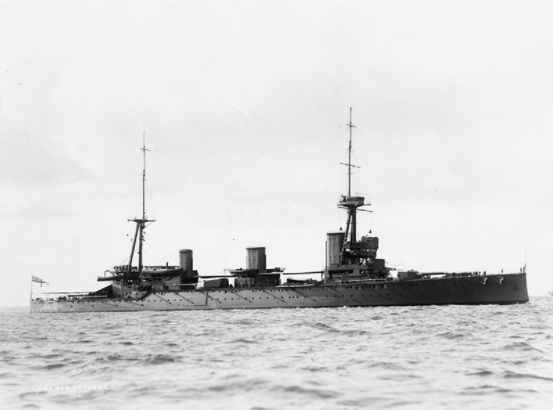 Photograph of Indefatigable class battlecruiser HMS New Zealand.